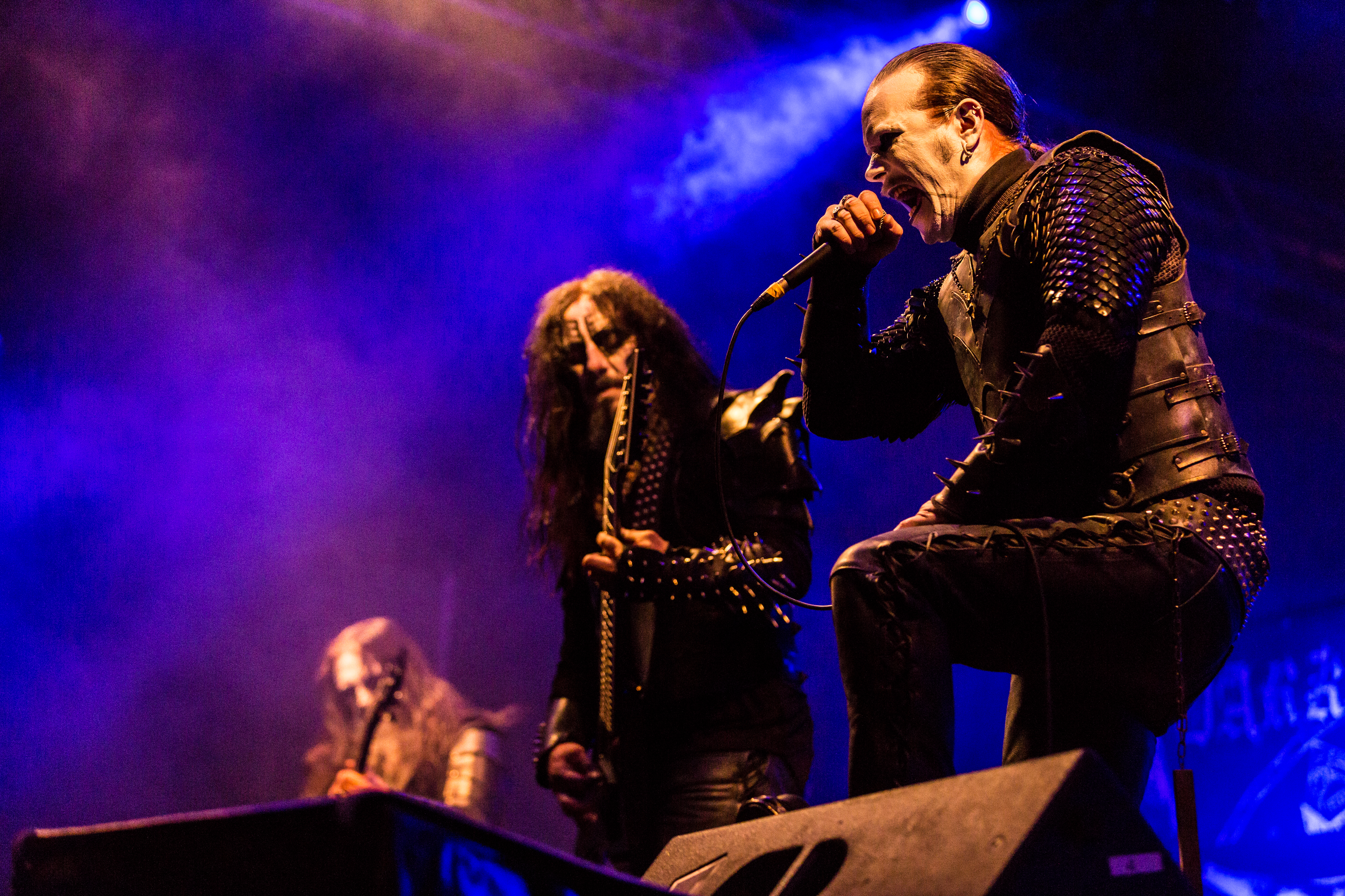 The Swedish black metal band Dark Funeral at the Rock unter den Eichen Open Air 2017 in Bertingen/Germany.